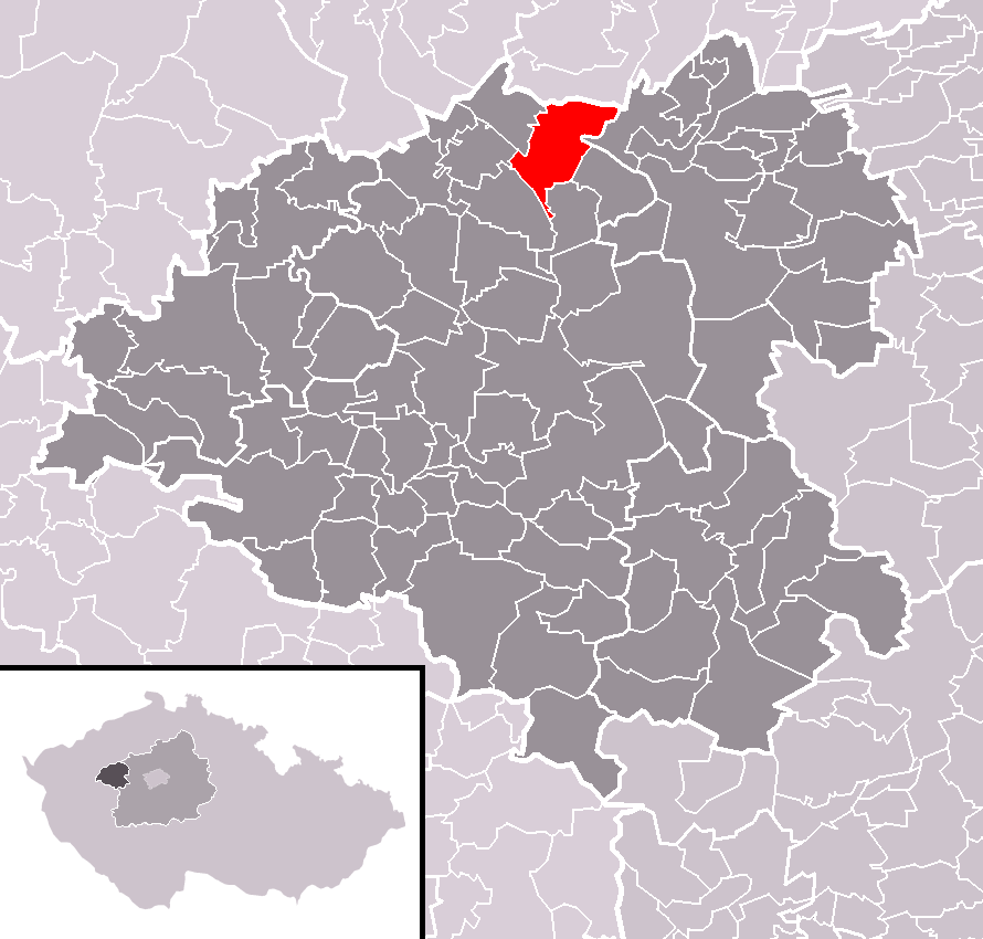 Location of Mutějovice municipality within Rakovník District and (identical) administrative area of Rakovník as a Municipality with Extended Competence.